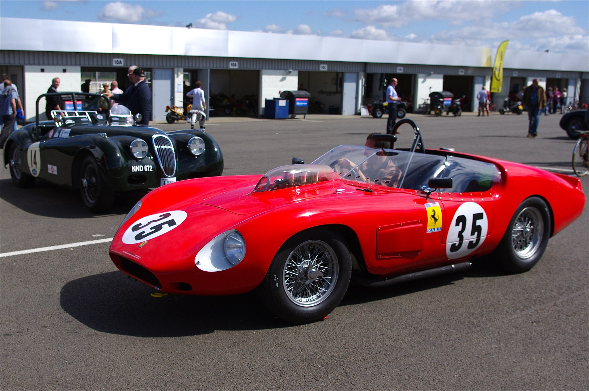 Silverstone Classic 2011